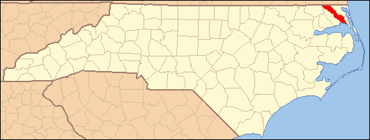 Locator Map of Camden County, North Carolina, United States